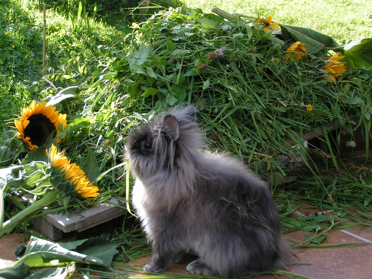 Feeding with fresh grasses and herbs